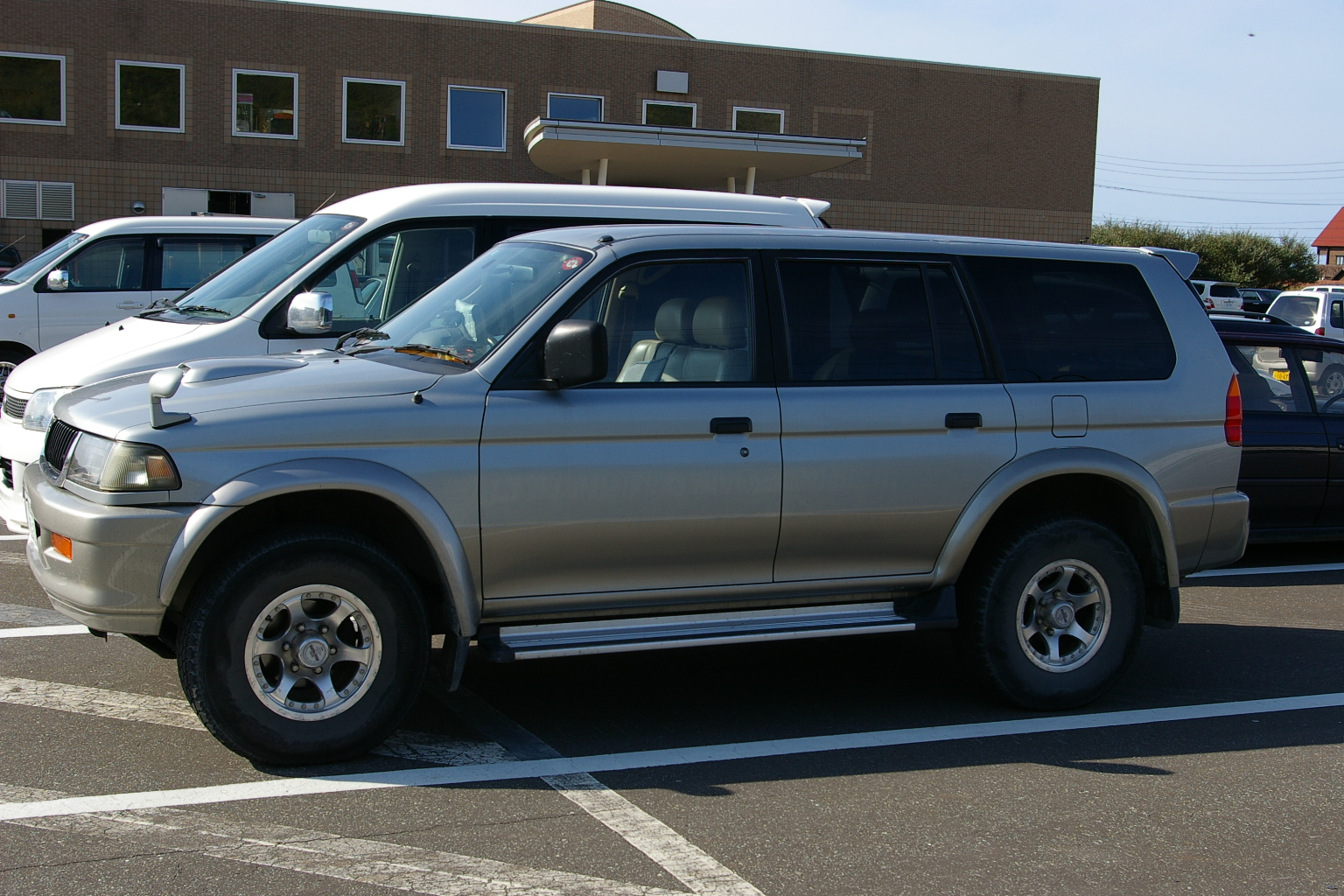 Mitsubishi Challenger(ShogunSports,PajeroSports).